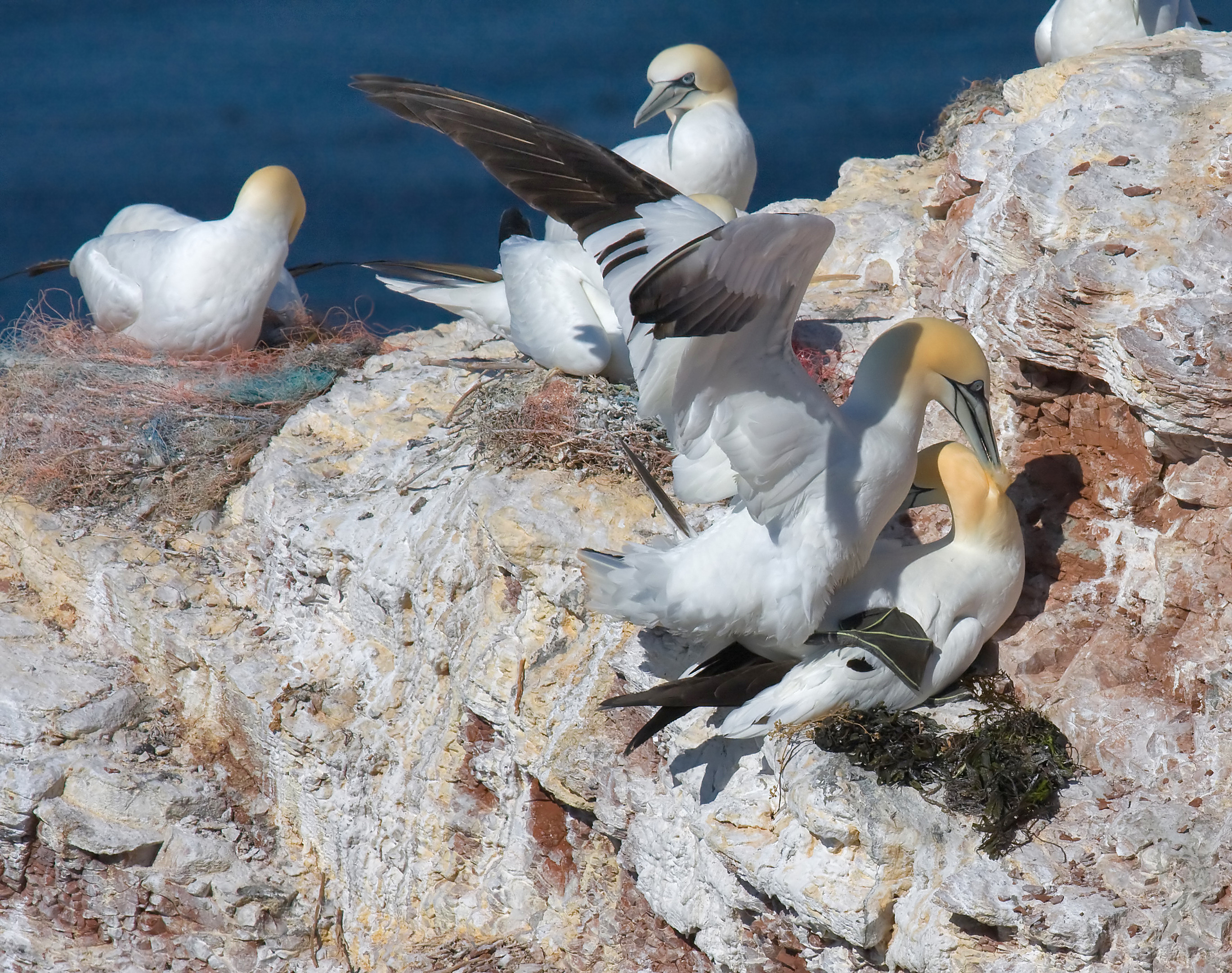 Northern Gannet